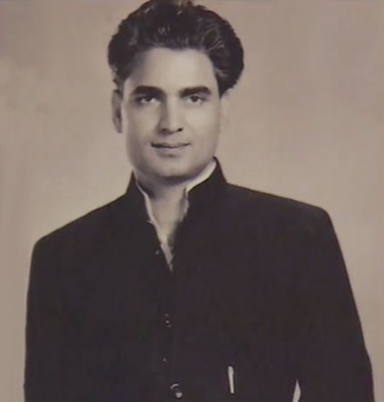 Syed Amir Haider Kamal Naqvi, popularly known as Kamal Amrohi (17 January 1918 – 11 February 1993) was an Indian film director and screenwriter.Template:1940 Syed Amir Haider Kamal Naqvi, popularly known as Kamal Amrohi (17 January 1918 – 11 February 1993) was an Indian film director and screenwriter.Template:1940